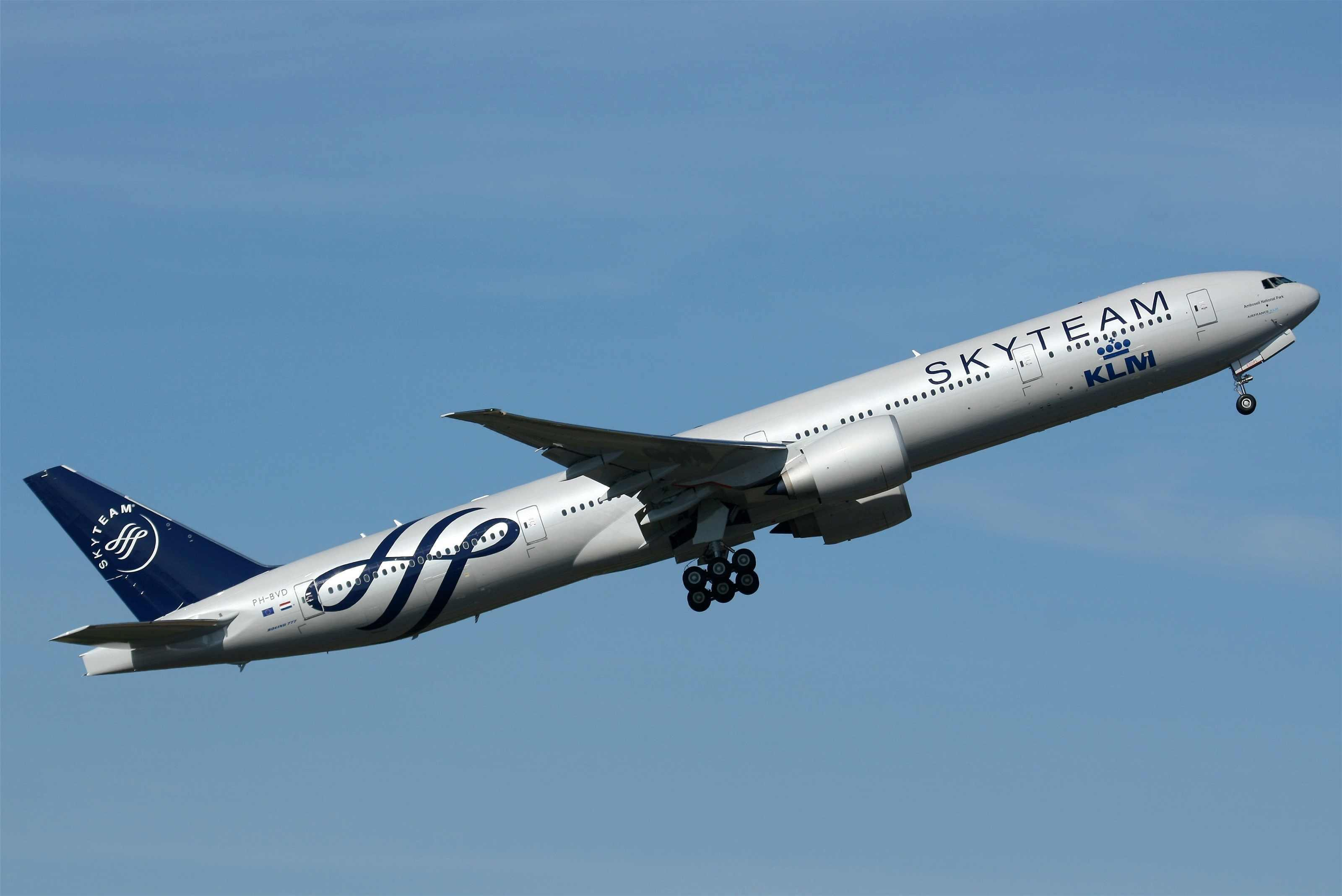 This is the Boeing 777-300ER of KLM in Skyteam colors.